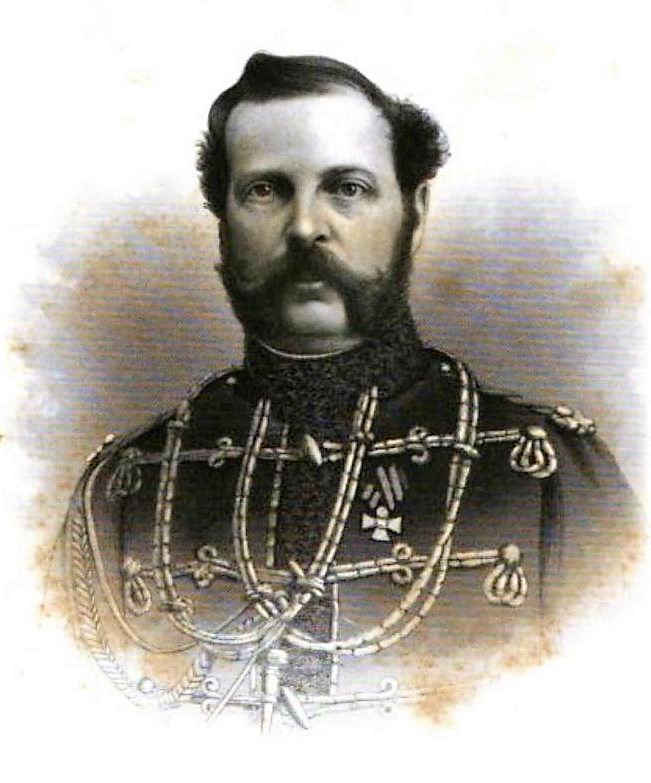 Engraving of Alexander II of Russia.